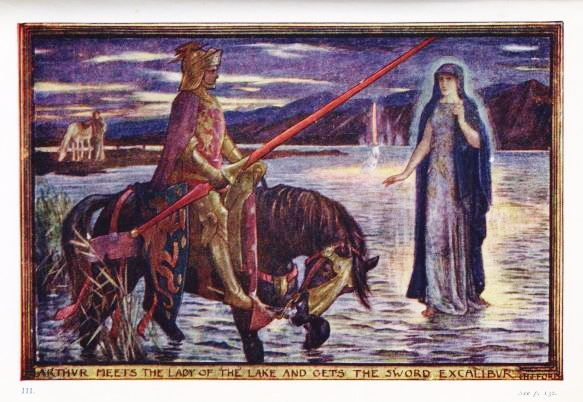 Illustration by H.J. Ford for Andrew Lang's Tales of Romance, 1919. "Arthur meets the Lady of the Lake and gets the Sword Excalibur"